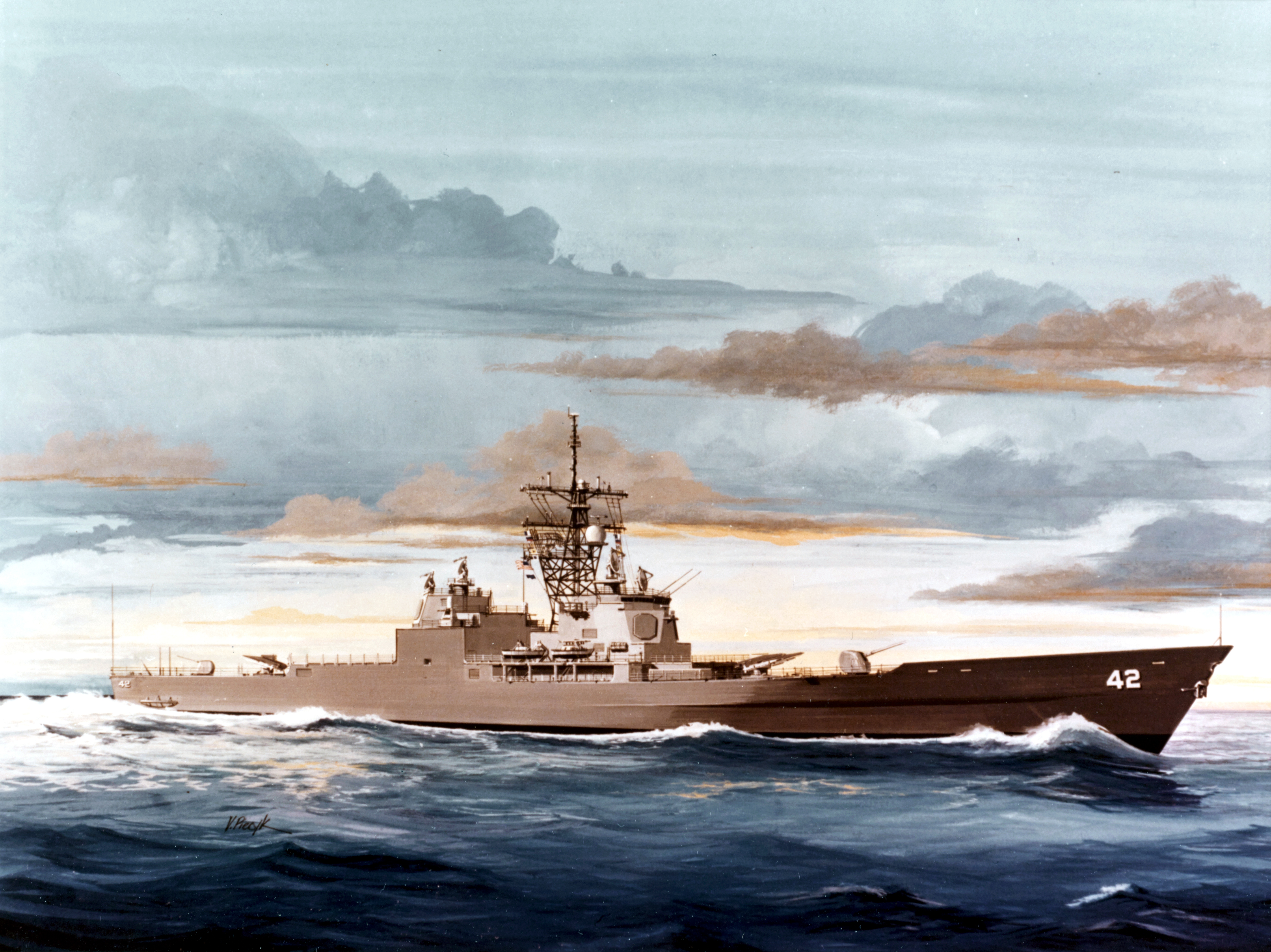 Artist's conception by V. Piecyk of the nuclear-powered Aegis Missile System Cruiser ("CGN-42 class") planned for, but not submitted with, the fiscal year 1979 Navy Shipbuilding Program.